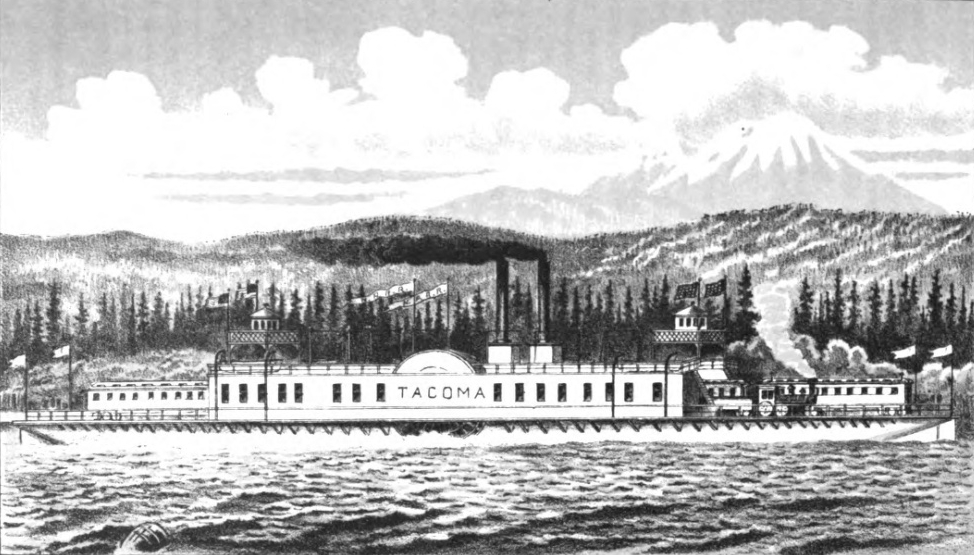 Steamship Tacoma on the Columbia River; chromolithographic plate published in West Shore magazine in February 1887